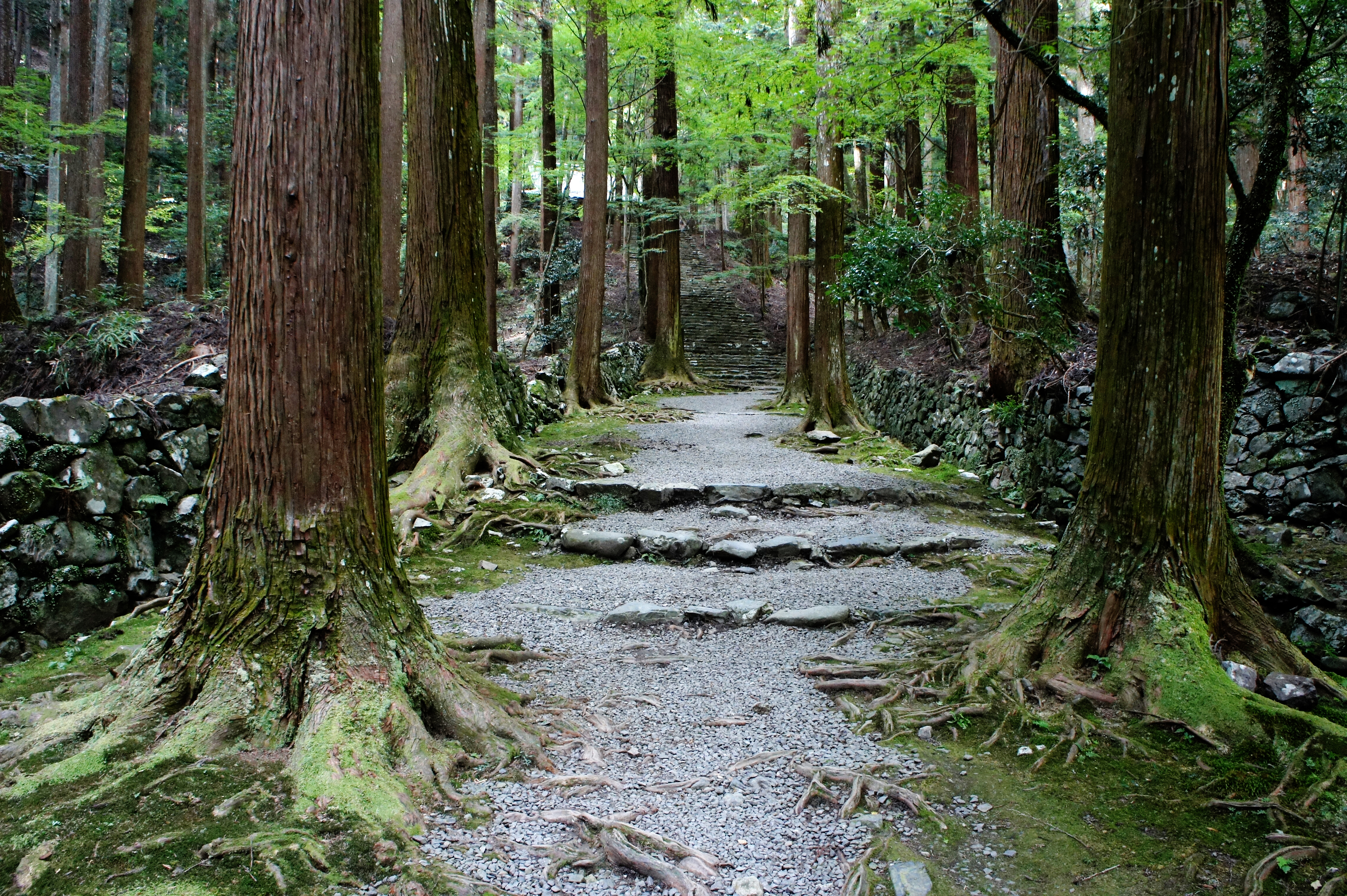 Kōzan-ji in Kita-ku, Kyoto, Kyoto Prefecture, Japan. It was registered as part of the UNESCO World Heritage Site "Historic monuments of ancient Kyoto".